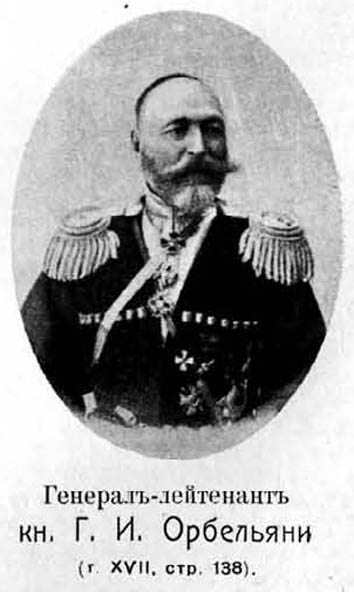 Prince Giorgi Orbeliani, a Georgian prince and a general in the Russian army